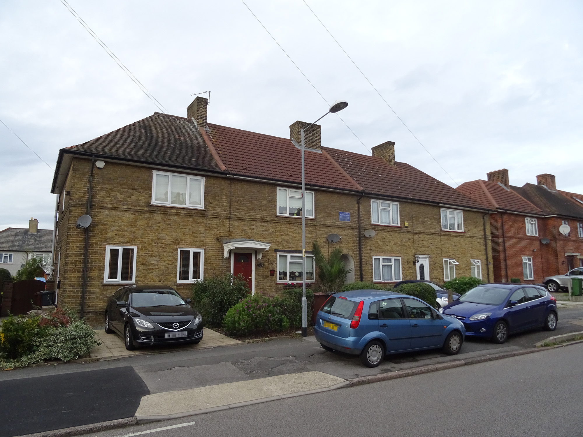 22-28 Chittys Lane, Becontree, Dagenham RM8 1UP, London Borough of Barking and Dagenham. This block of houses was the first to be erected on this estate and was completed on 7th November 1921